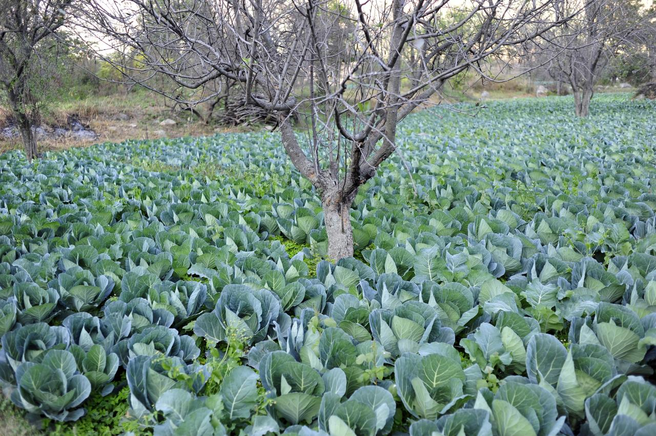 Himachal Pradesh (Hindi: हिमाचल प्रदेश) is a state in Northern India. Alpine terrain, with snow capped peaks and glacial valleys, the state is one of the leading producers of fruits and vegetables in India. Agriculture, farms of India, mixed farming - veggies and fruits trees